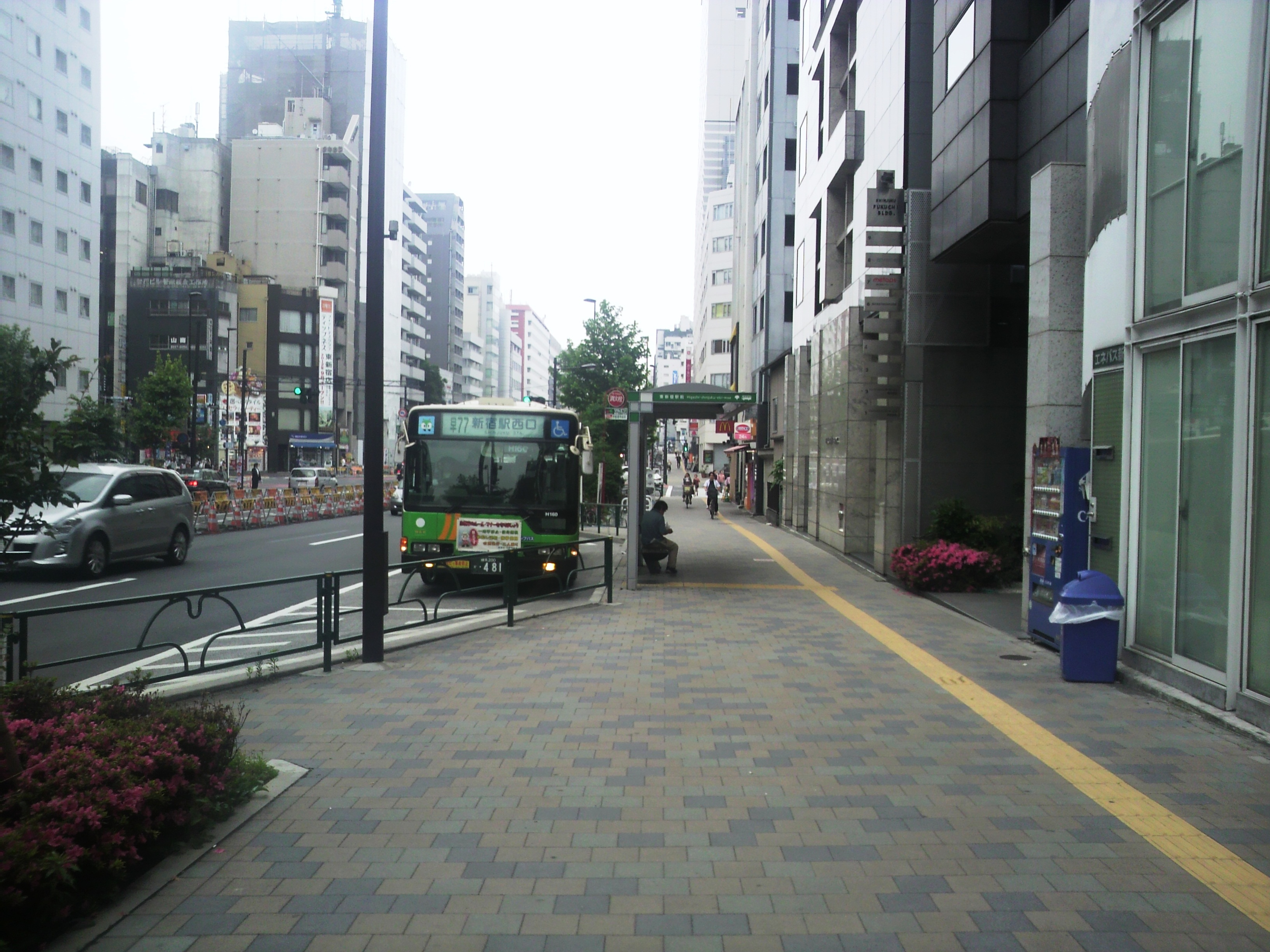 Higashi-Shinjuku Station Bus Stop Date: June 02, 2012